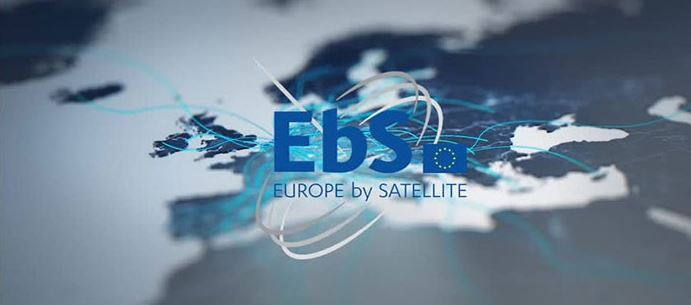 Europe by Satellite